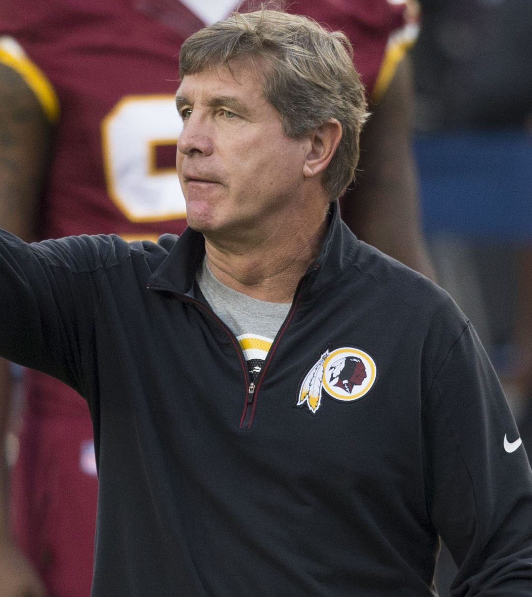 Jaguars at Redskins 9/3/15